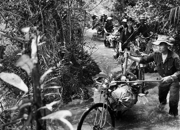 Transporting goods on the Ho Chi Minh Trail from North Vietnam to South Vietnam